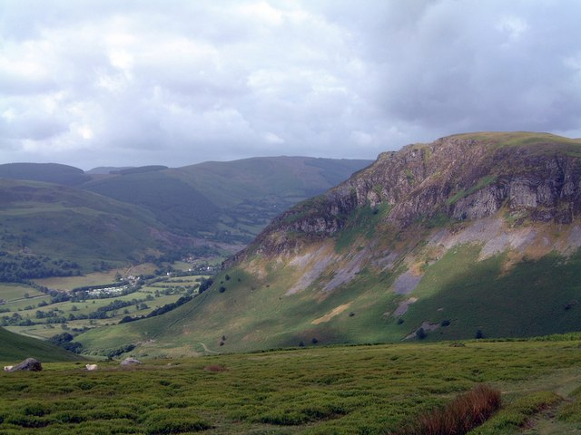 Craig Rhiwarth, near to Llangynog, Powys, Great Britain. Taken from bridle path on Y Clogydd